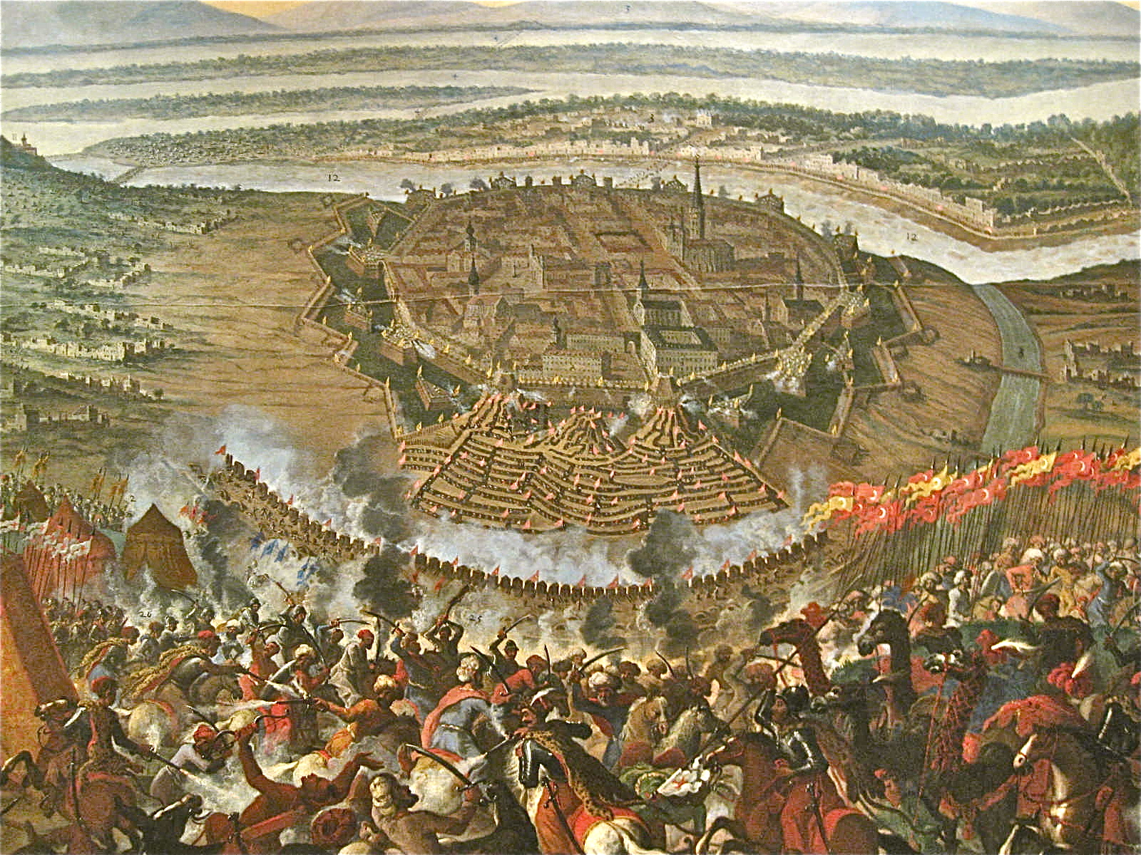 The Turkish Siege of Vienna. In the Vienna Museum